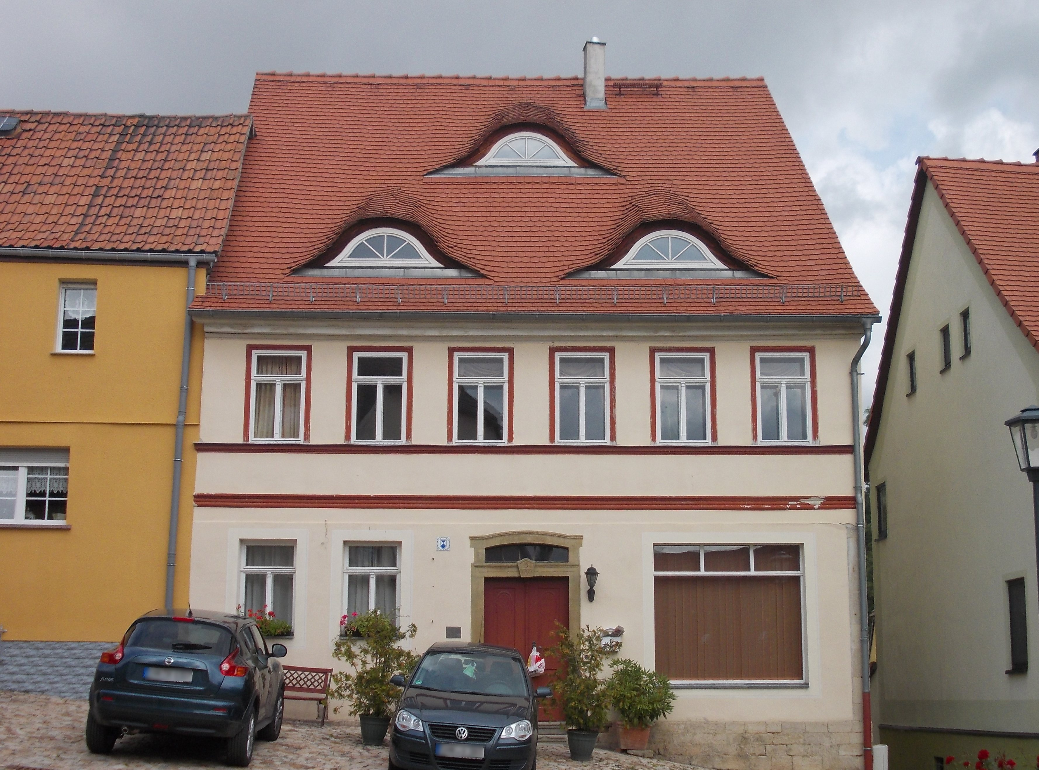 House in the market square of Schkölen (district: Saale-Holzland-Kreis, Thuringia)